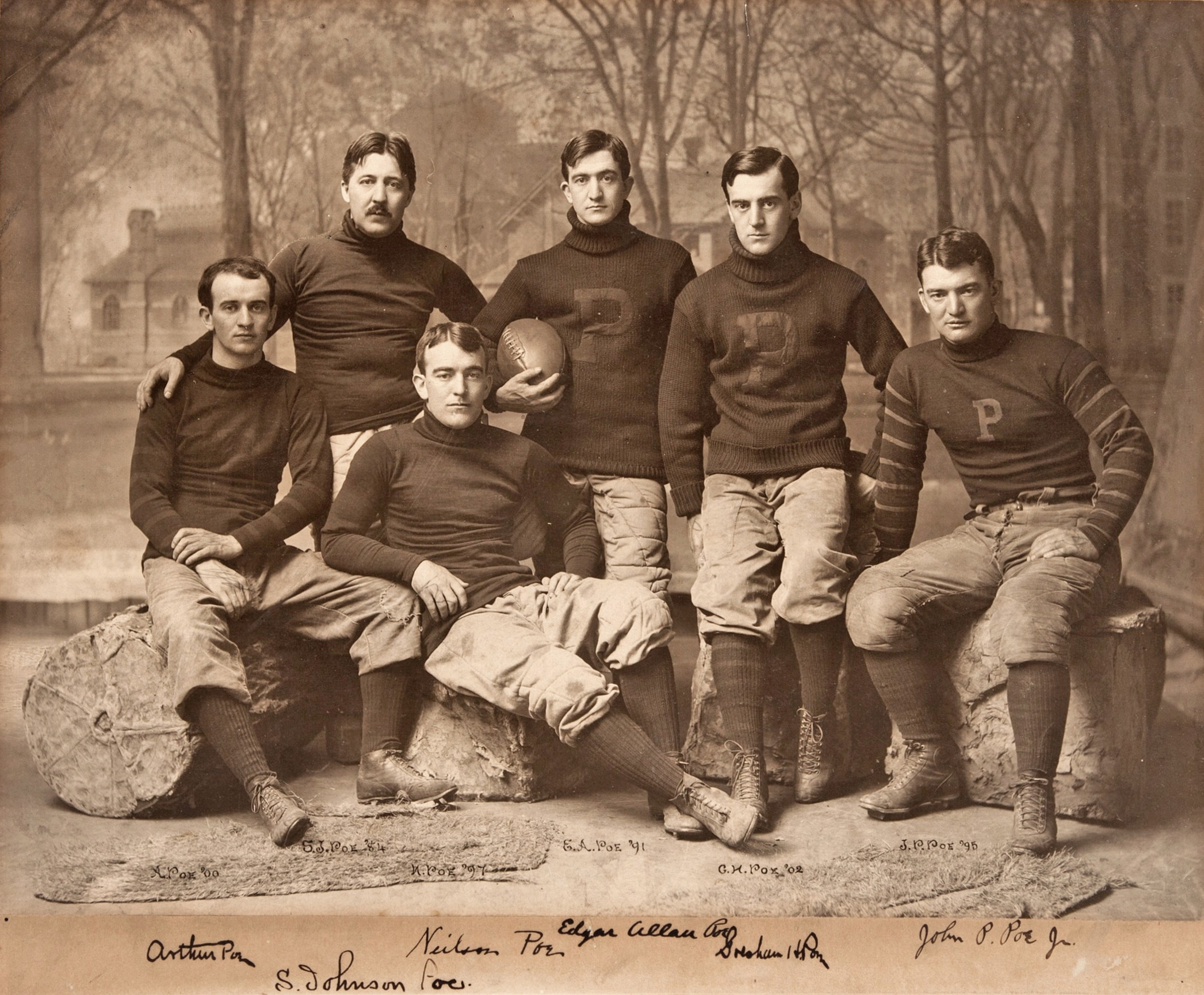 "Imperial" original photograph featuring the famed family of Princeton gridders, while each penned his name in bold black fountain pen ink. Included are all six "Poe Brothers": Arthur, Samuel Johnson, Neilson, Edgar Allan, Gresham and John Prentiss.